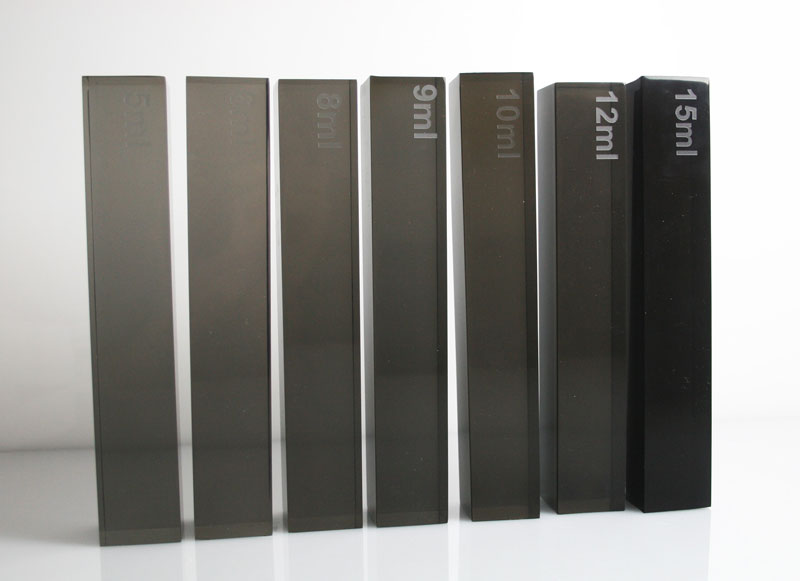 Cast Acrylic